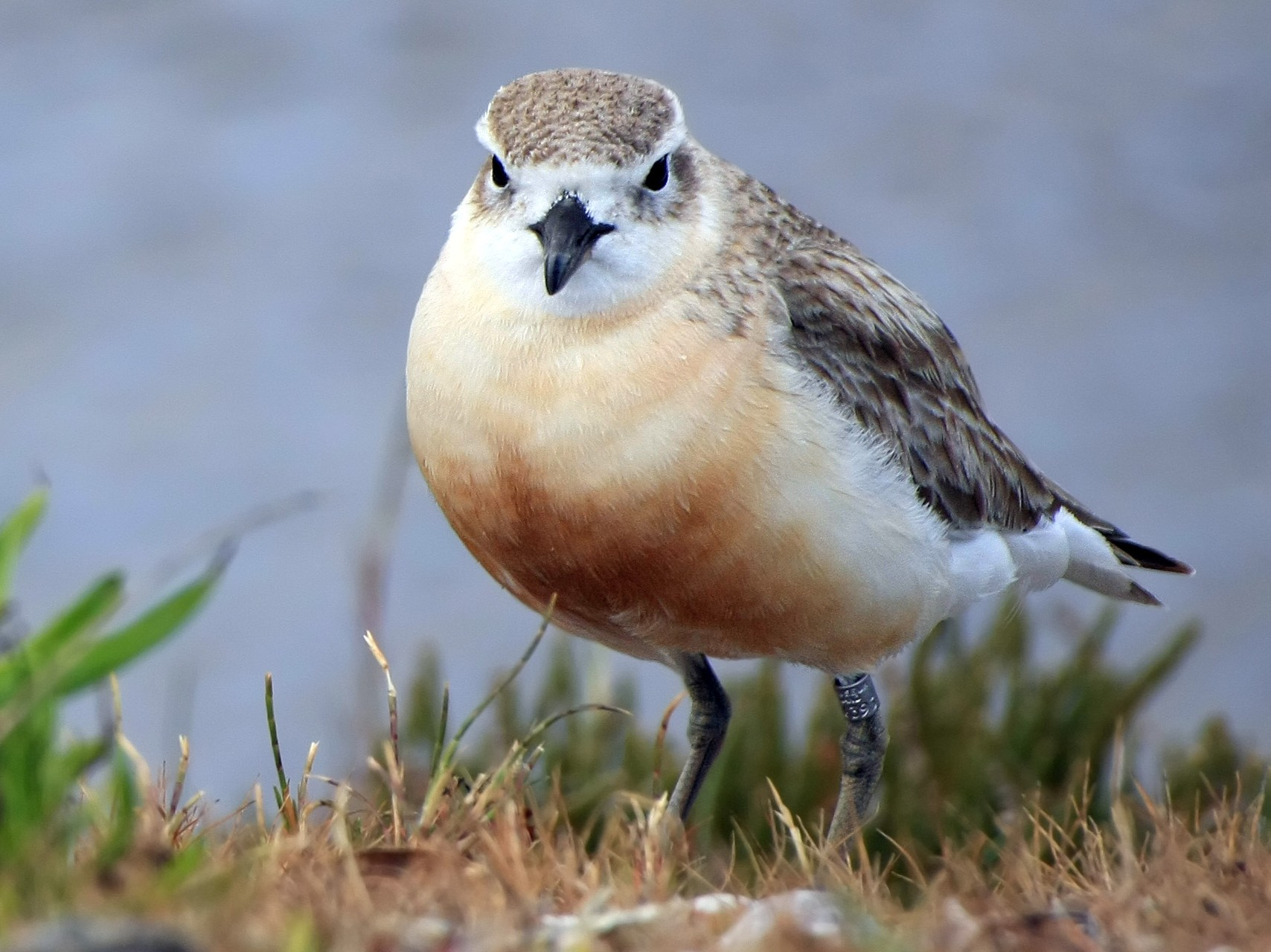 New Zealand dotterels used to be common around many areas of New Zealand, but they are now an endangered species, and are only found in a few places. In the year 2000 there were only about 1300 Northern NZ dotterels. There are more Northern NZ dotterel than Southern NZ dotterel, but they are still endangered. And because of people and predators the population is going down each year. Parent birds lay eggs in the spring and summer, between October and early January. Because nests are on the ground the chicks have strong legs and can walk the day they hatch. When they are young they are very small and look like fluffy bumblebees with long legs. To lure away human invaders, they will frequently run in front of you, semi–crouched with the head turned back to make sure you are following. This little one was doing just that. I thought it was stalking me...! View Large